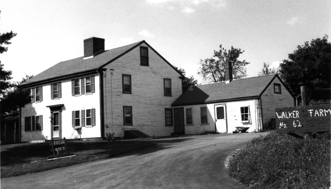 Bogle-Walker House, Sudbury, Massachusetts. House has been demolished.